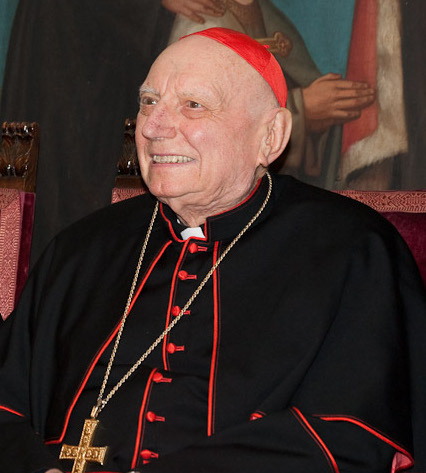 Card. Špidlík during Špidlík's 90th Anniversary, Pontificio Collegio Nepomuceno, Rome